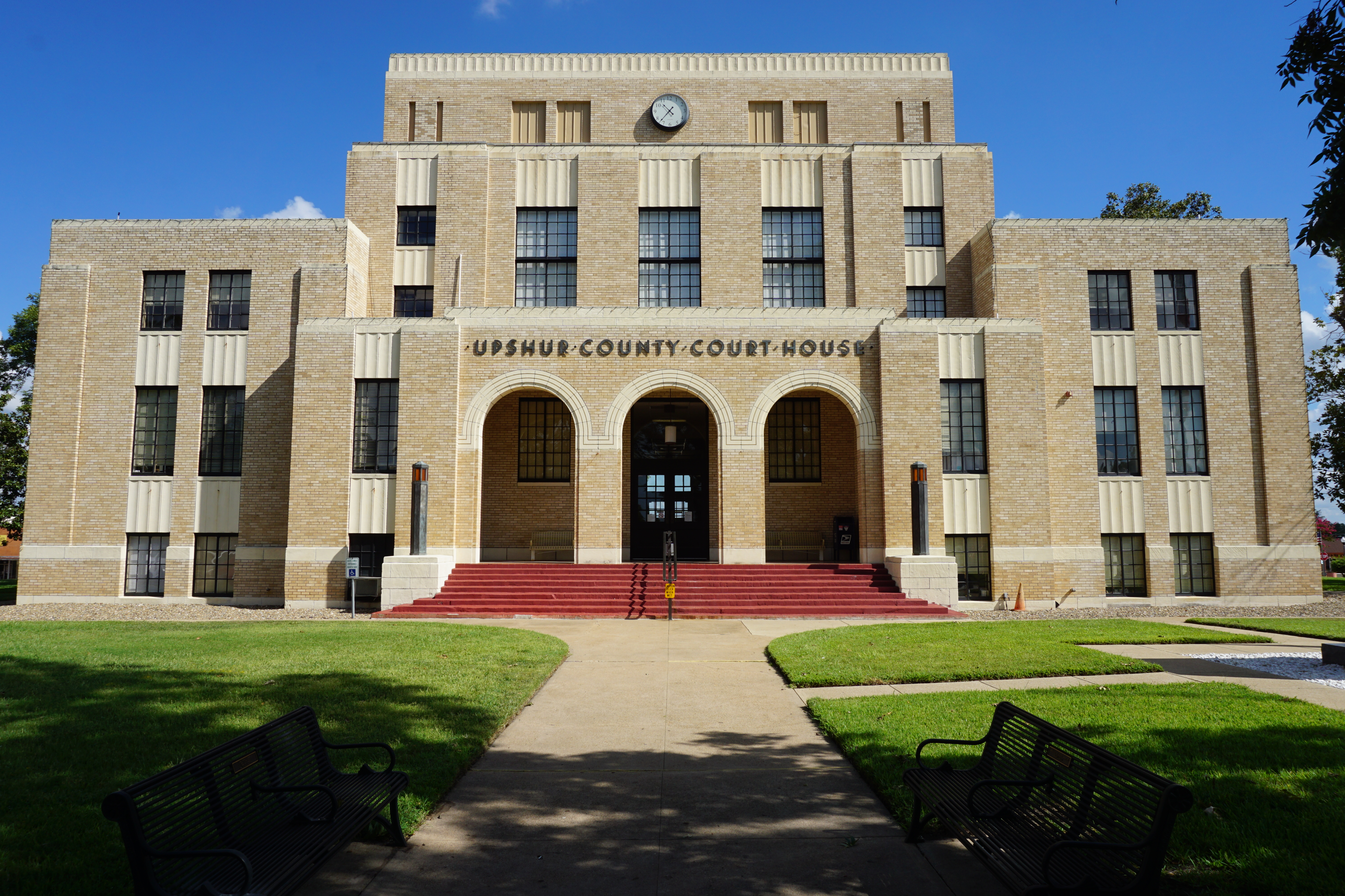 The Upshur County Courthouse in Gilmer, Texas (United States).